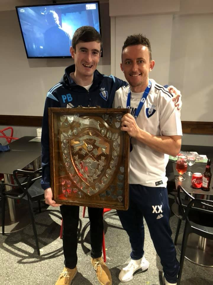 Fiachra McArdle celebrating with teammate Padraig Biggane after winning the 2018/19 Kent Intermediate Challenge Shield